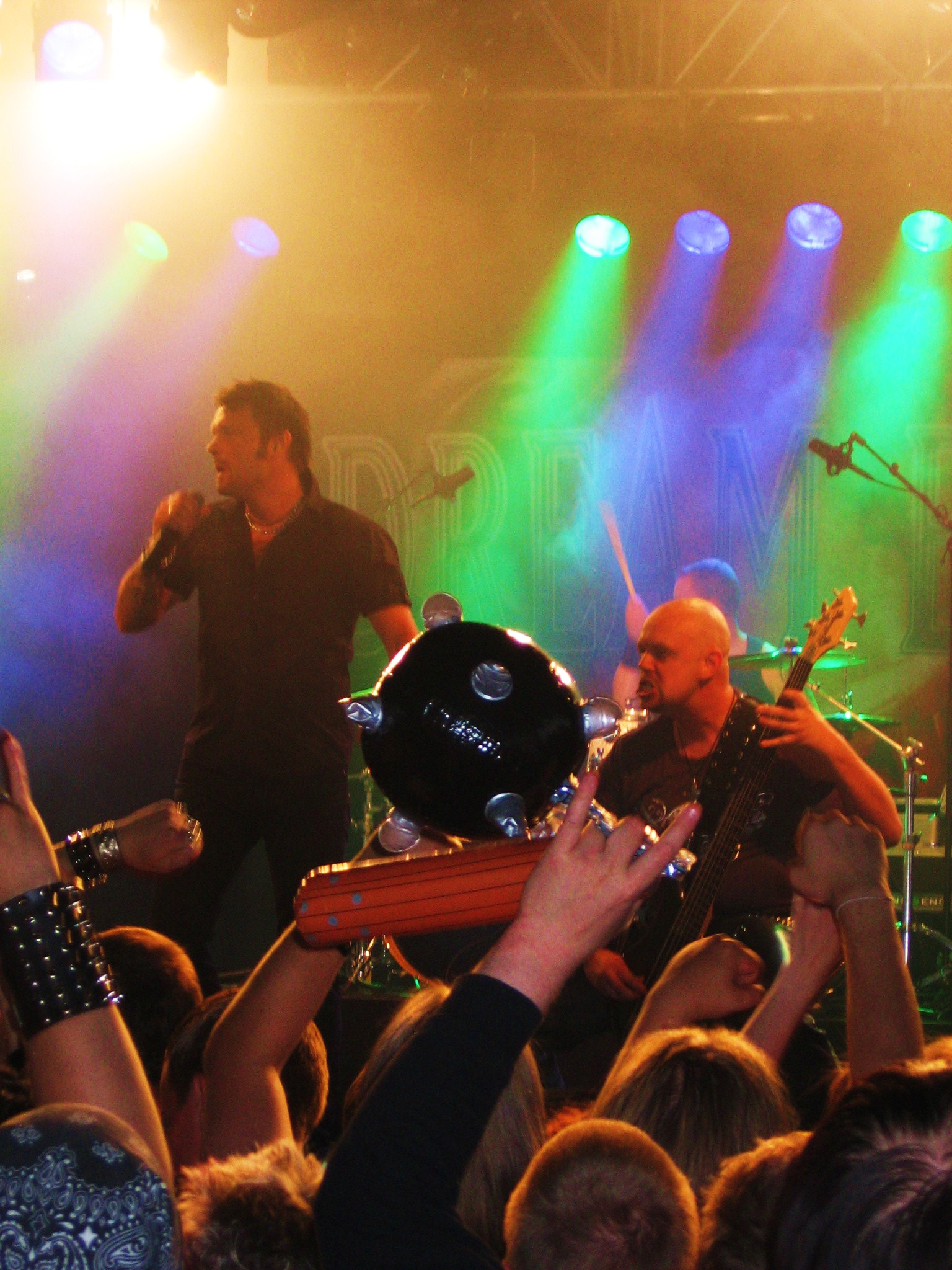 Dream Evil at Tuska 2008, Helsinki.